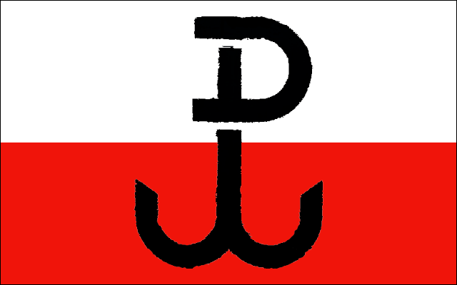 Unofficial flag of the Armia Krajowa and the Polish Secret State. Basically it's the Flag of Poland with the kotwica symbol placed in the middle. `PW´ stands for `Polska Walczaca´ (Fighting Poland)